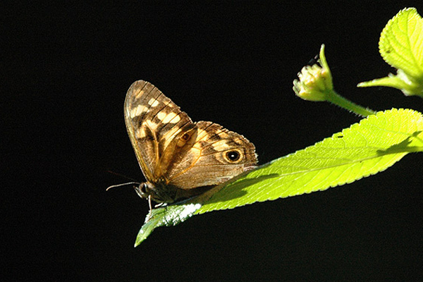 Bank's Brown (Heteronympha banksii)